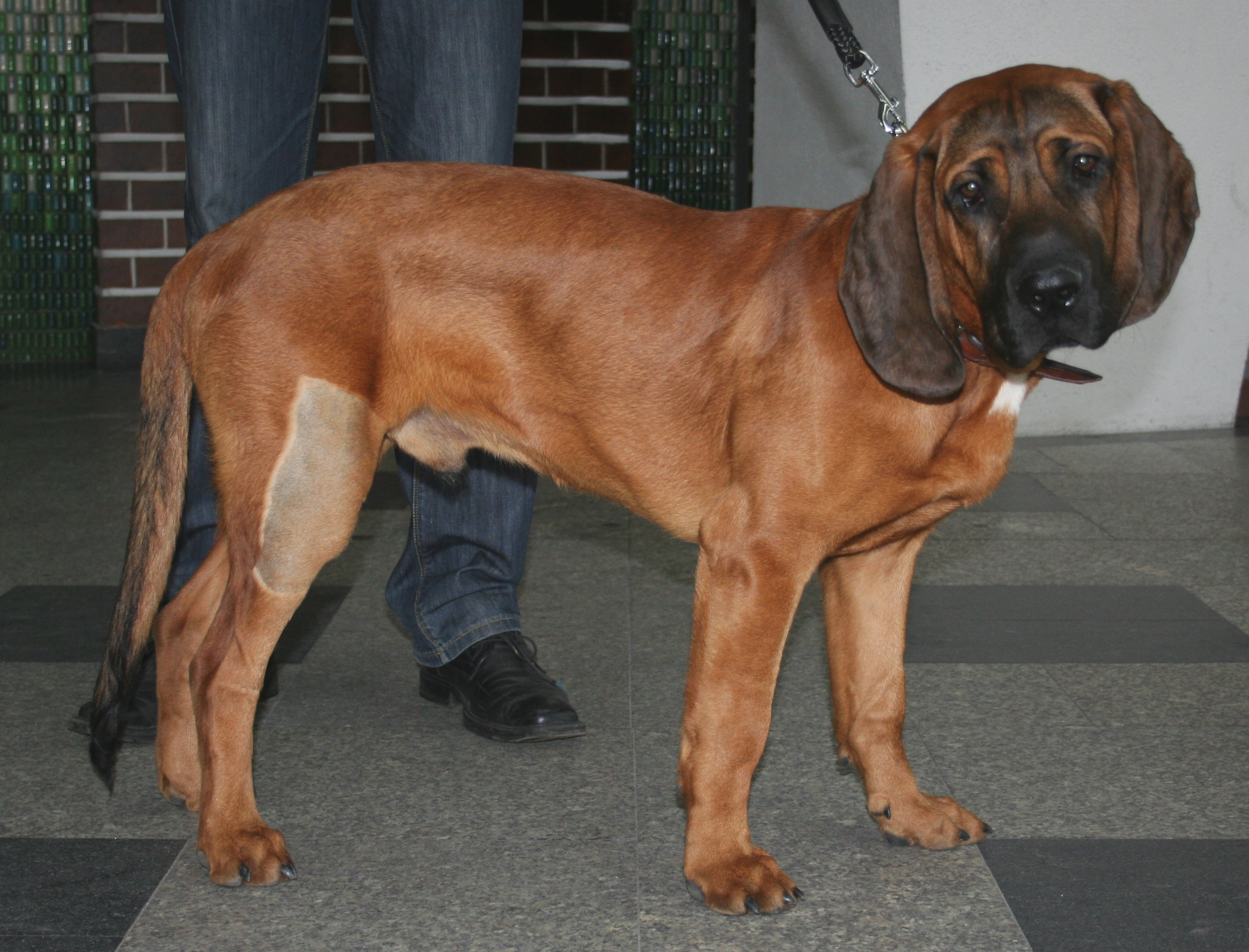 Hanover Hound "BODO Olsztyńska Leśniczówka" during the international dogs show in Katowice, Poland. The owner is Piotr Giemzik from Poland.